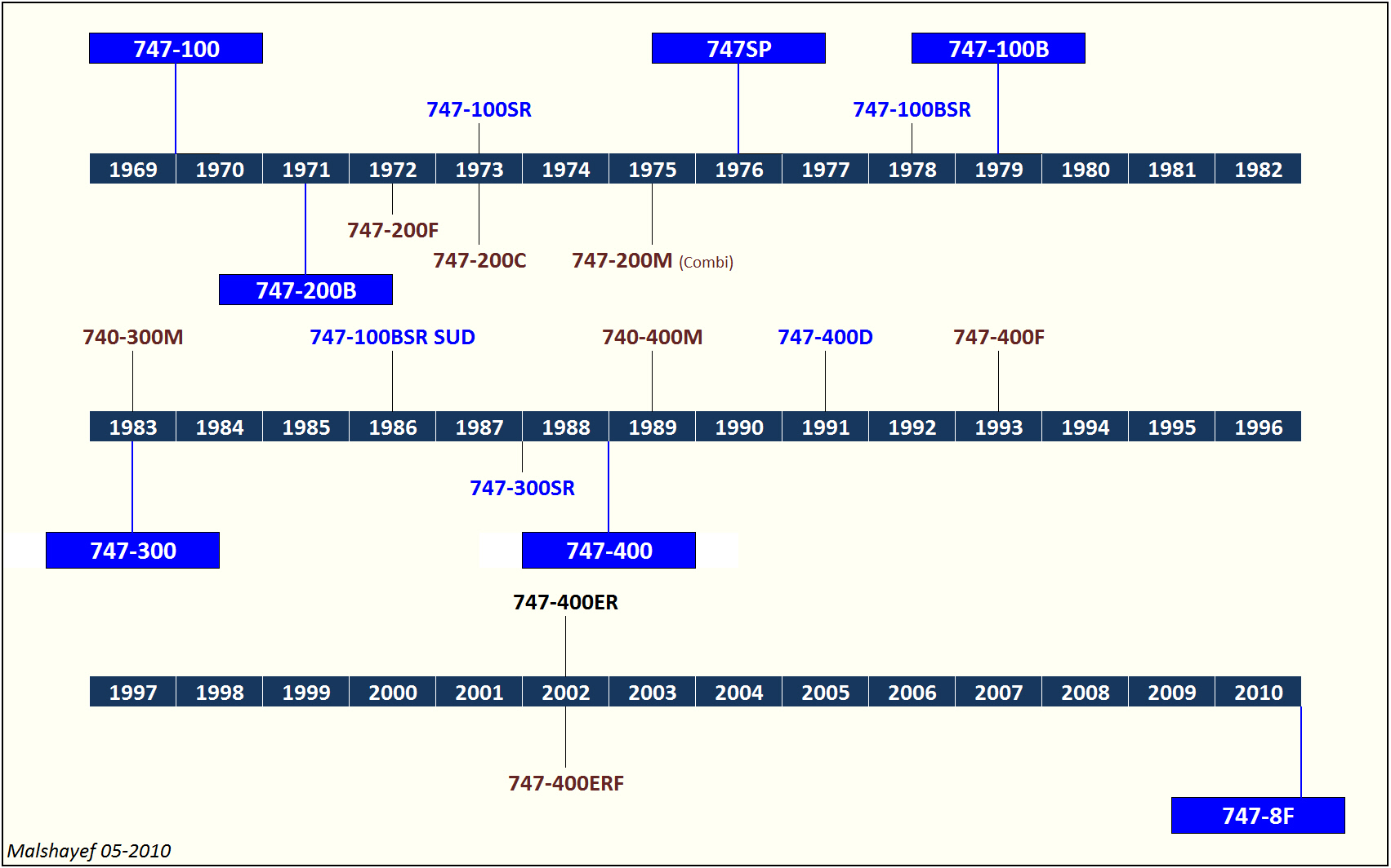 Boeing 747 Deliveries Timeline (malshayef 05-2010)